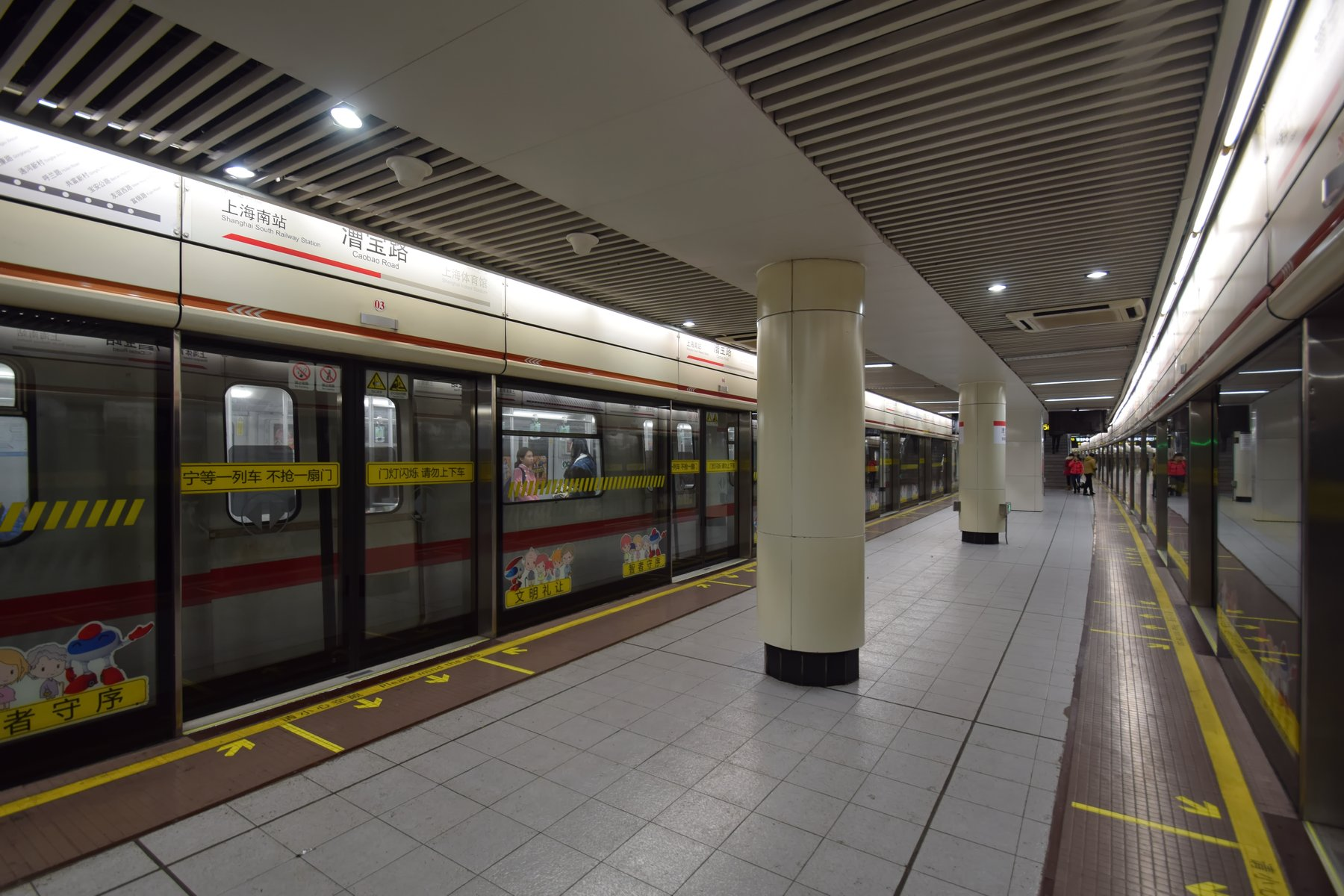 Line 1 Platform of Caobao Road Station, Shanghai Metro